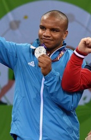 Zhan Beleniuk at the European Games, Baku, 2015